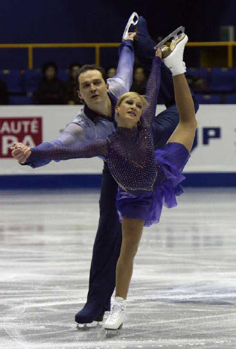 Tatiana VOLOSOZHAR and Stanislav MOROZOV(UKR) at the 2008-2009 Grand Prix Final.